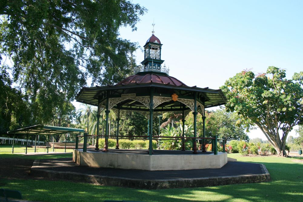 Queen's Park, bandstand from S (2009)